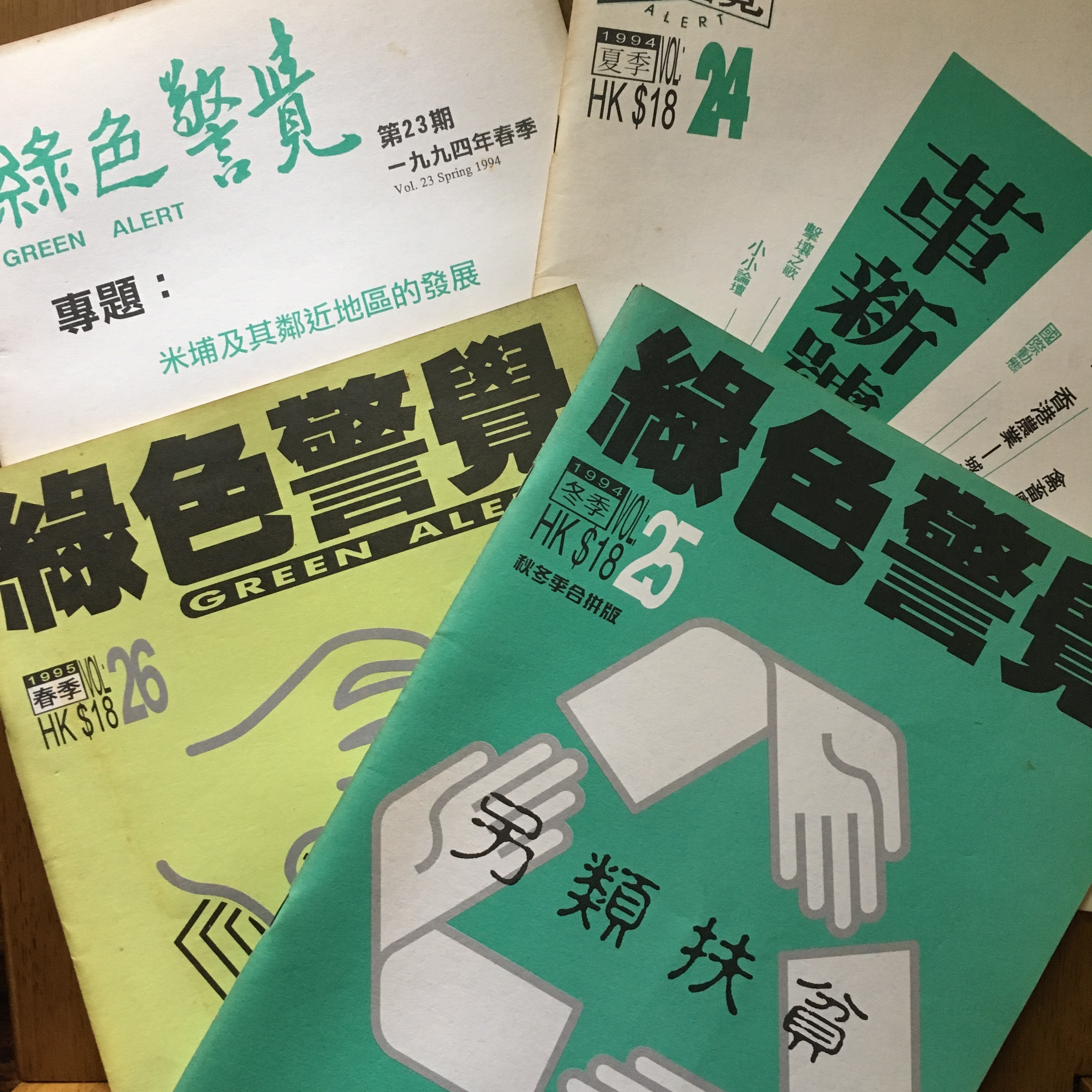 Green Alert Magazines